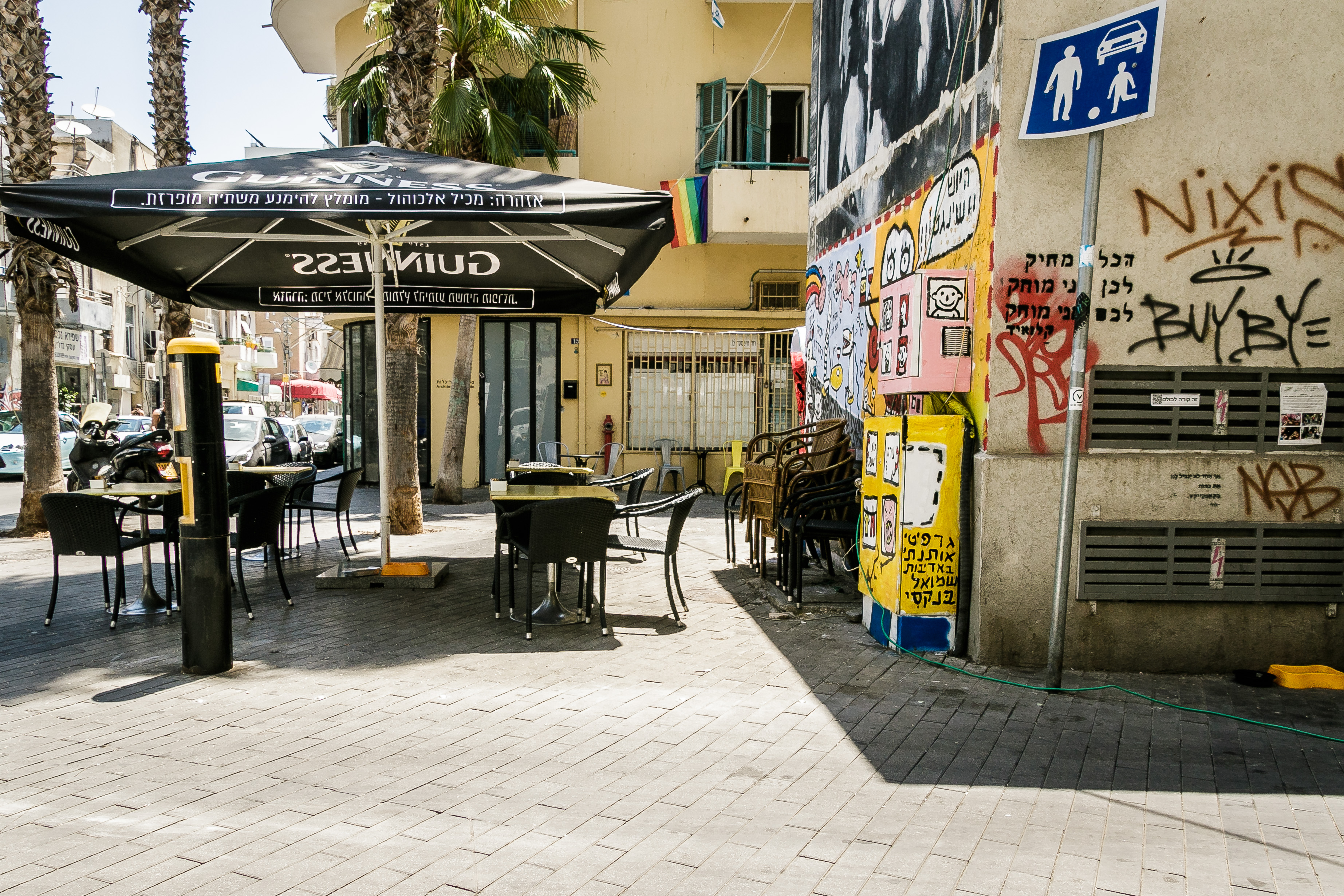 Florentine quarter, Tel Aviv, Cities in Israel